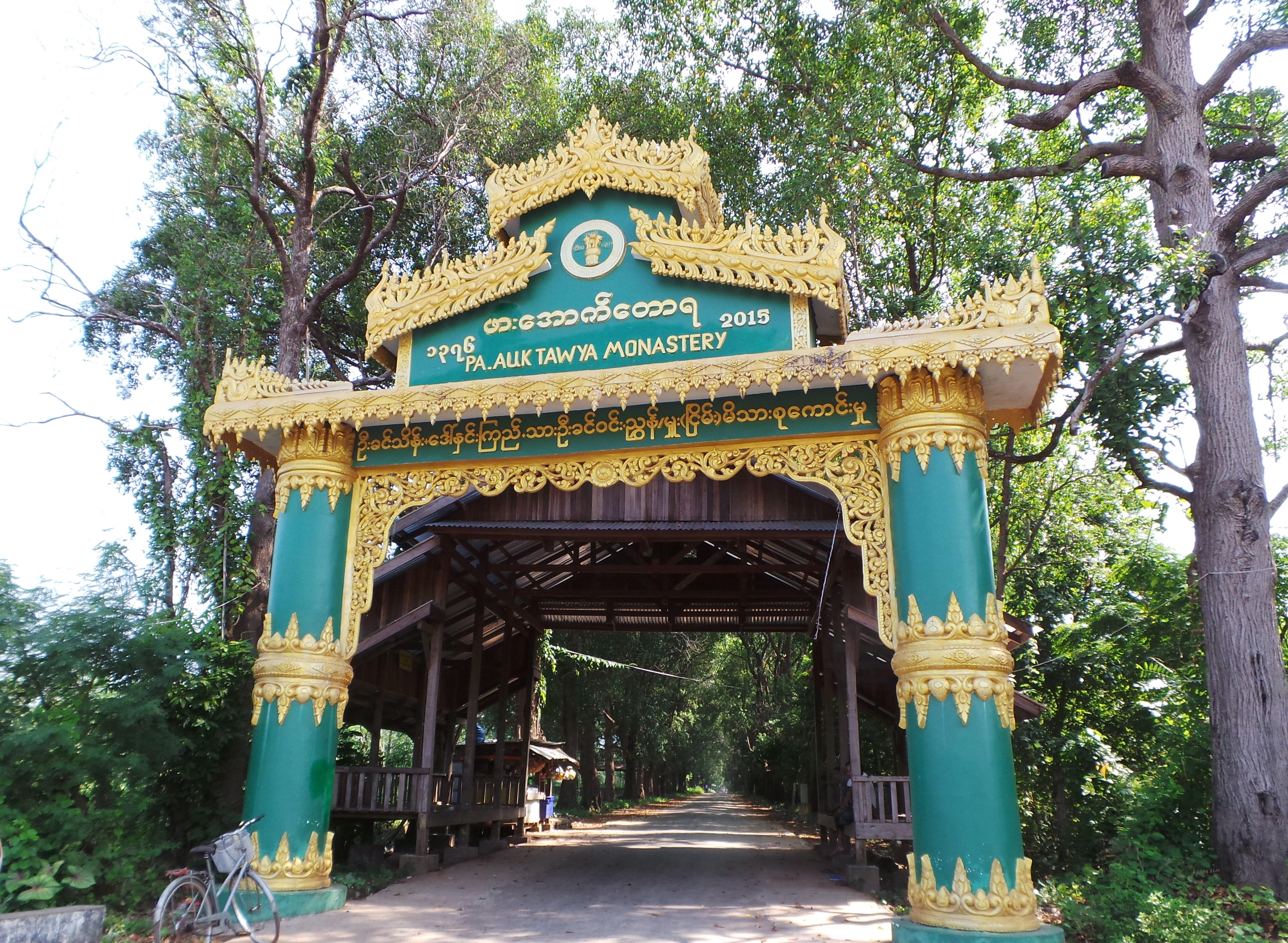 Entrance of Pa-Auk Forest Meditation Center (Main) in Mawlamyine, Mon State မြန်မာဘာသာ: ဖားအောက်တောရရိပ်သာ(ပင်မ) အဝင်မုခ်ဦး၊ မော်လမြိုင်၊ မွန်ပြည်နယ်။